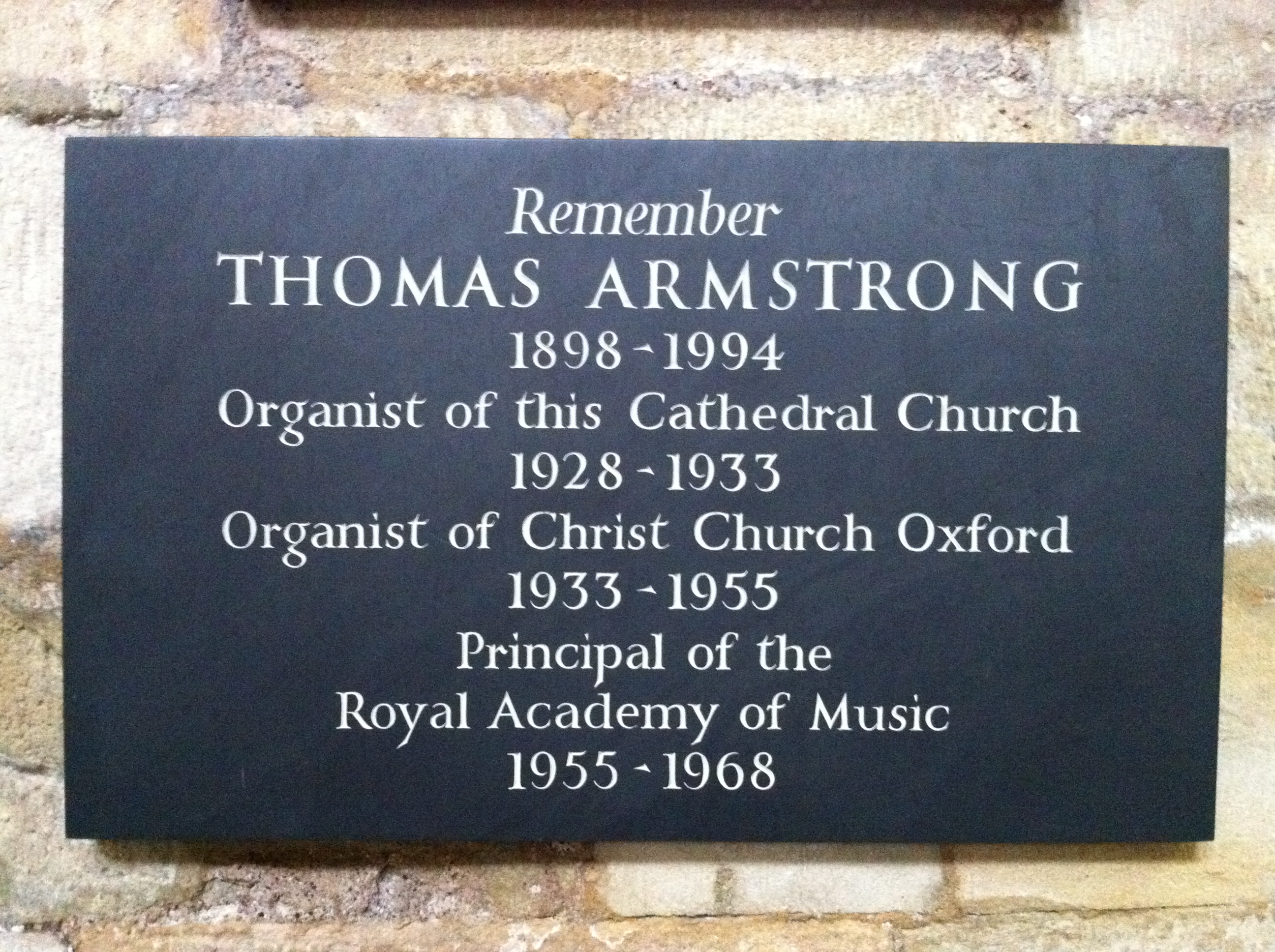 Memorial to Thomas Armstrong, Organist, Exeter Cathedral